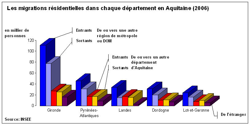 Residential migration in each department in Aquitaine (2006)